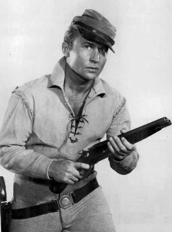 Photo of Nick Adams as Johnny Yuma from the television program The Rebel.